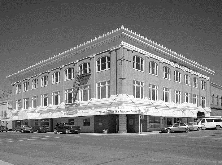 Heryford Brothers Building in Lakeview, Oregon; building was constructed in 1913 and is listed on the National Register of Historic Places (NRHP #80003330); photo was taken as part of National Park Service’s Historic American Buildings Survey in 2001